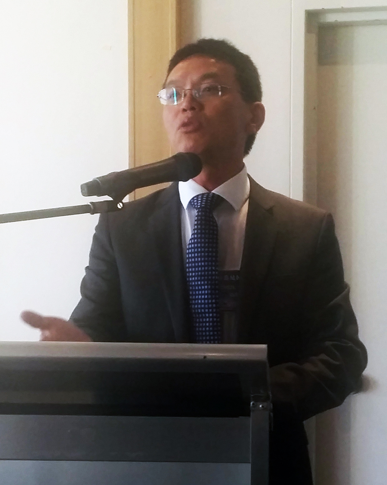 Chen Yonglin speaking in 2015 China Democracy Procession and Development of the Relationship of China, Hong Kong and Taiwan Conference in Sydney.